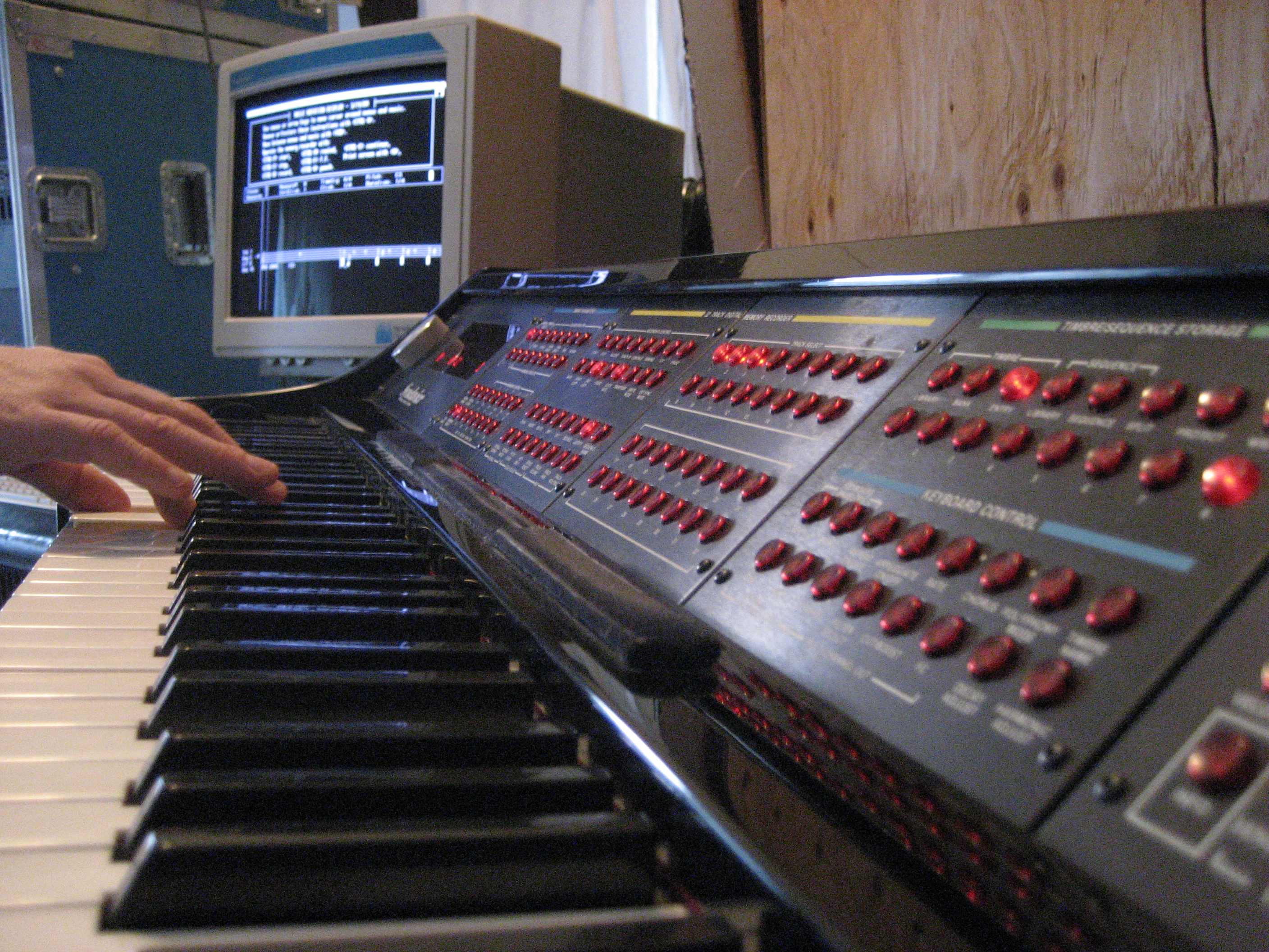 Synclavier VPK - front panel and keyboard (post-repair)